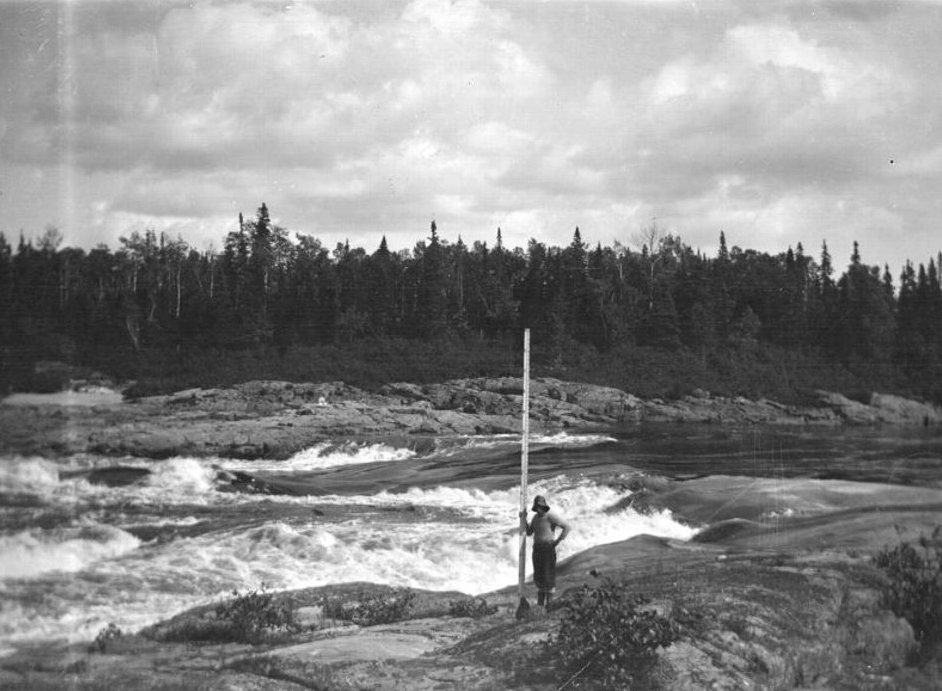 Surveying the Manicouagan River: 5th rapids of the first falls